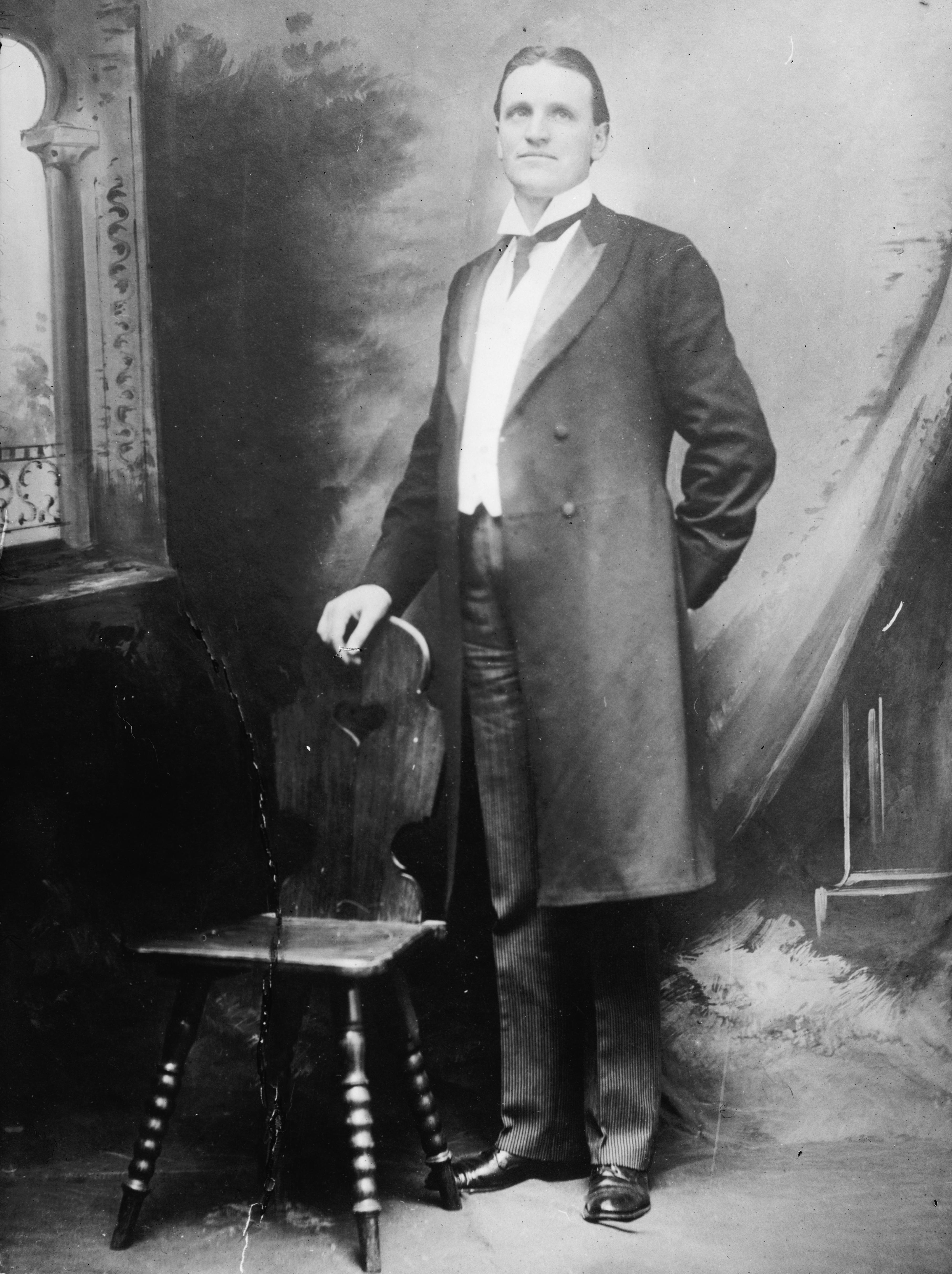 Henry F. Ashurst (1874-1962)